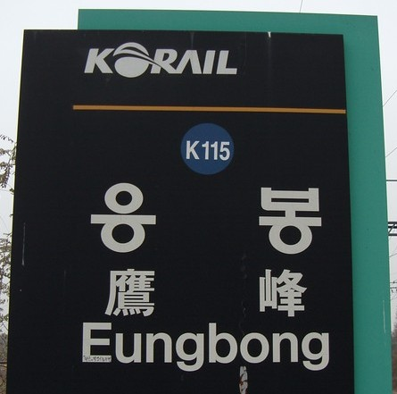 Eungbong Station